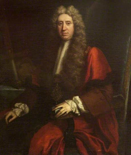 Portrait of Sir Richard Hoare I (1648–1718)